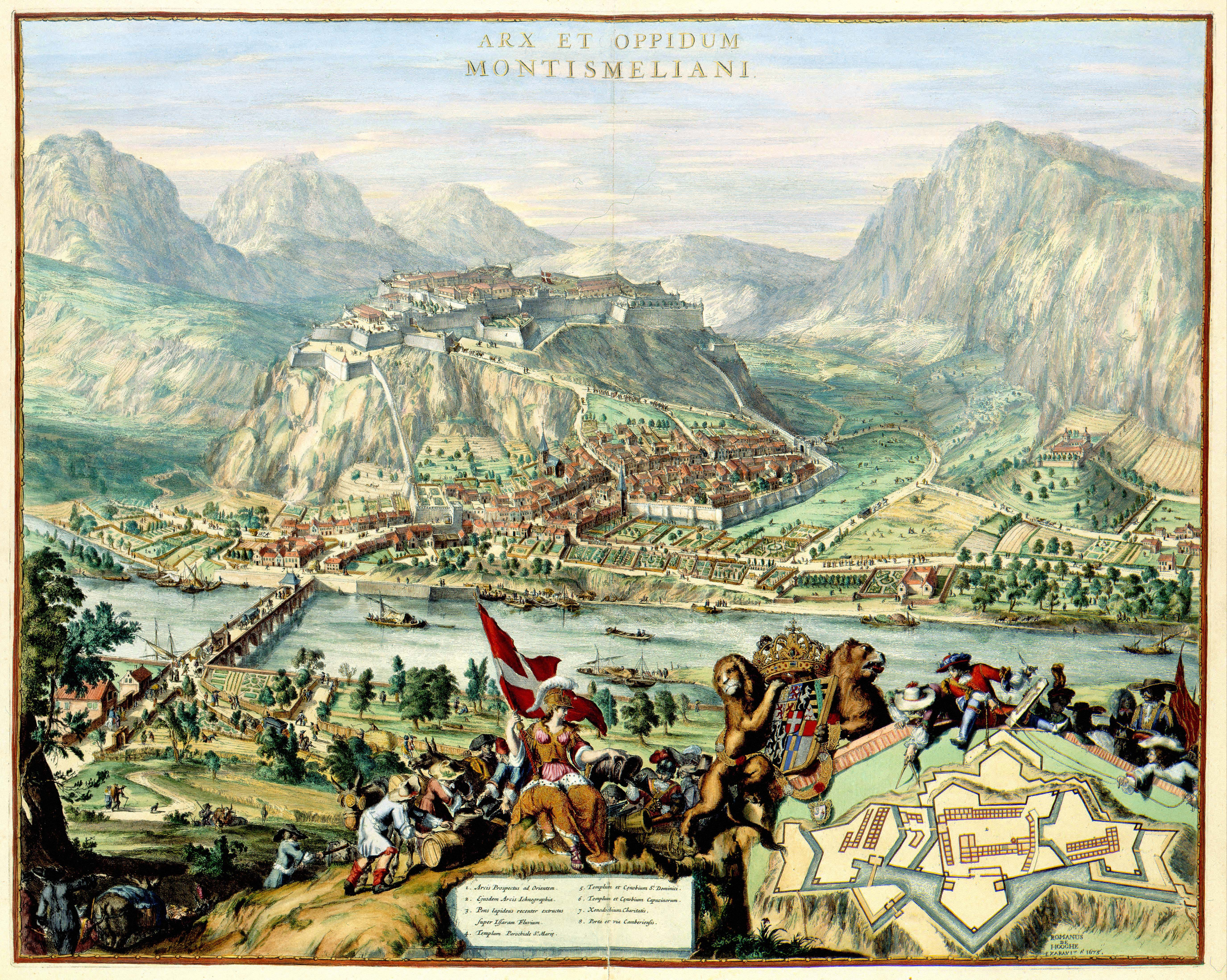 This is a panorama of the fortress town Montesmeliano, a print by the engraver Romeyn de Hooghe (1645-1708). It is included in the town book of Savoye published by the heirs of Joan Blaeu in 1682. The date indicates that the panorama was published as a news print in 1675 at the occasion of a siege of the fortress.